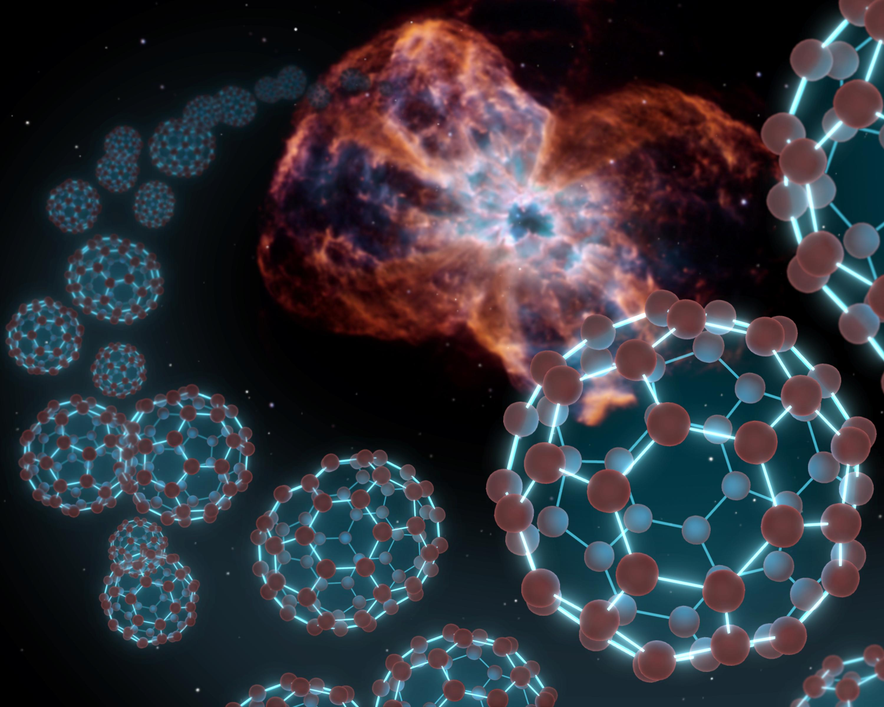 Artist's conception showing carbon balls coming out from a dying star and the material it sheds, known as a planetary nebula.